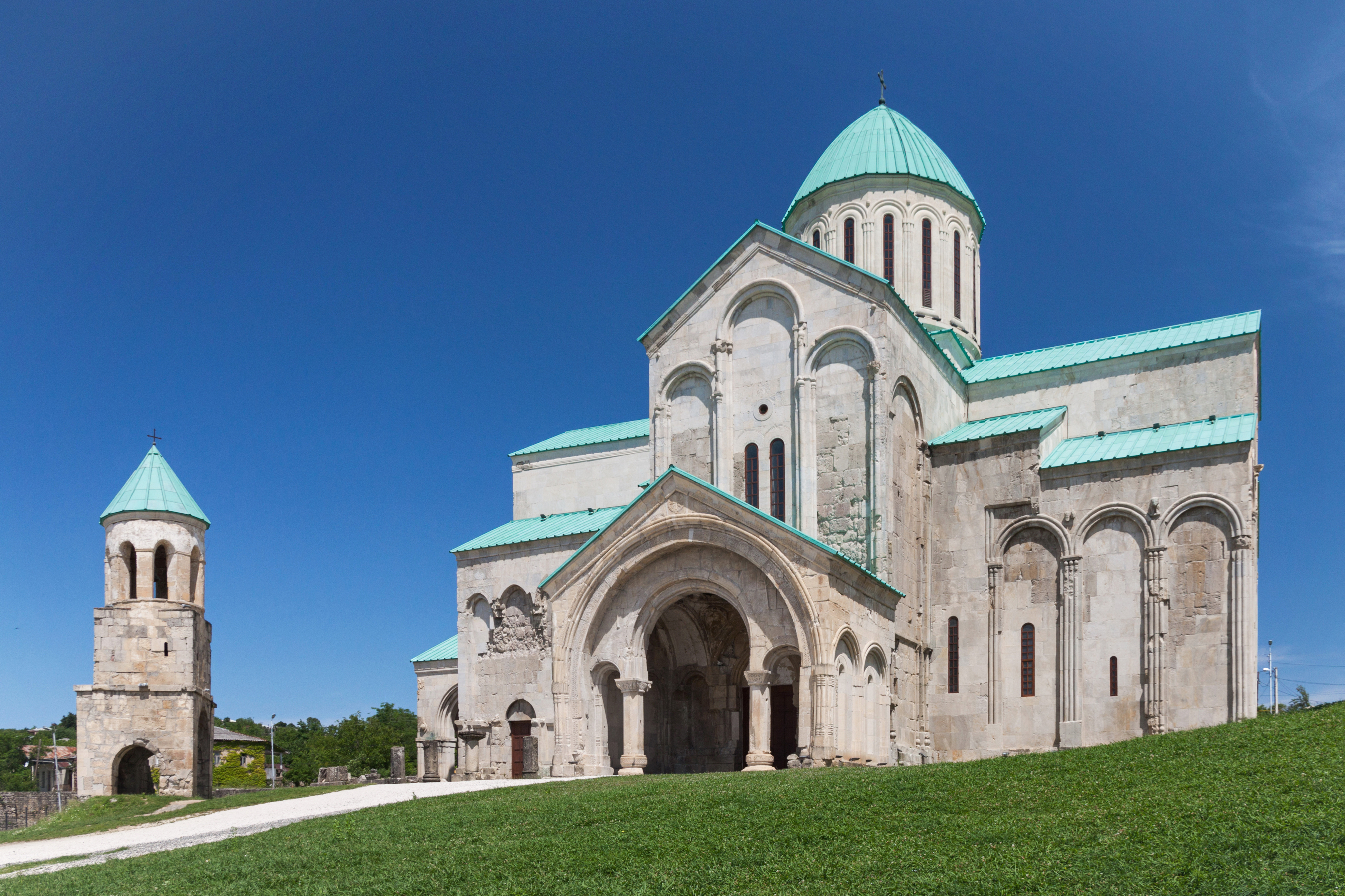 Bagrati Cathedral. Kutaisi, Imereti, Georgia.